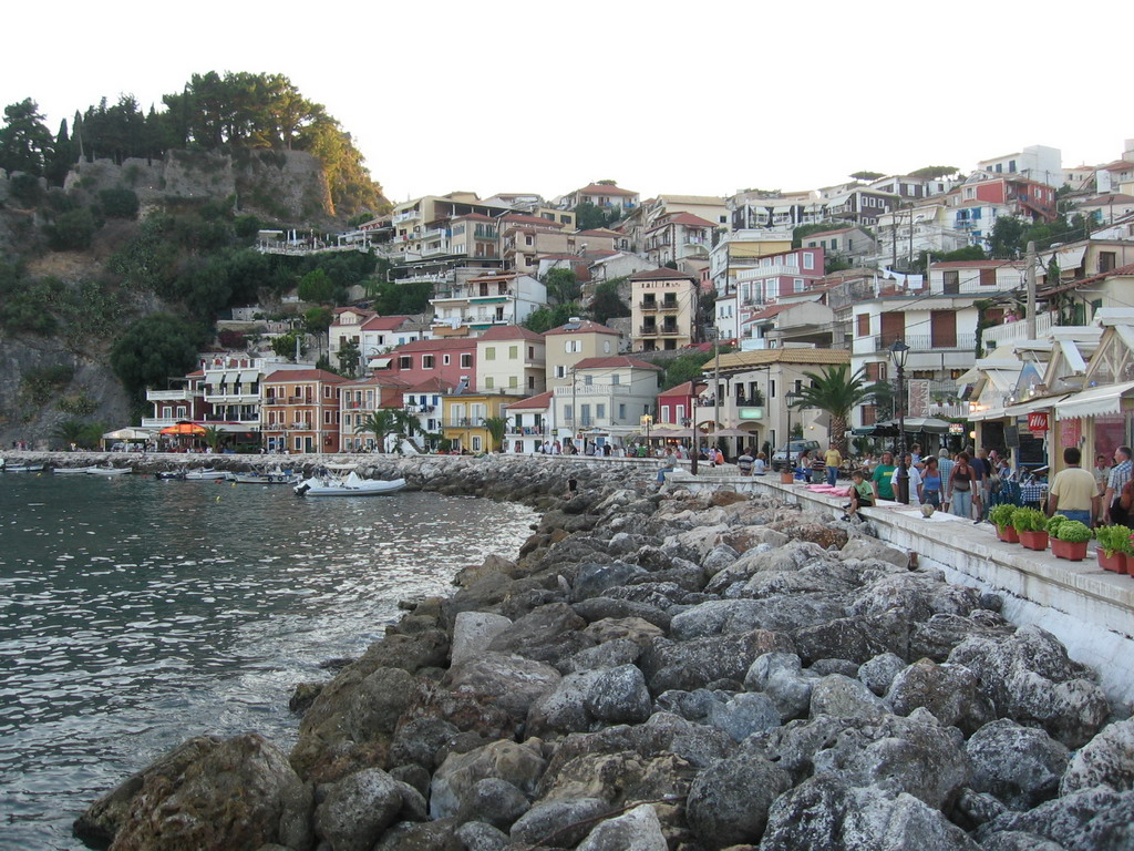 Harbour of Parga